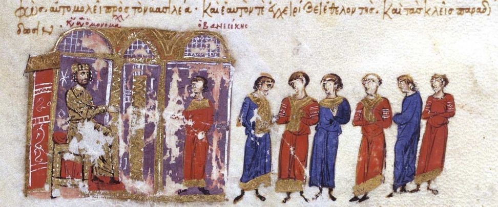 The Armenian lord of Ani, Iovanesikes, surrenders himself to Emperor Basil II